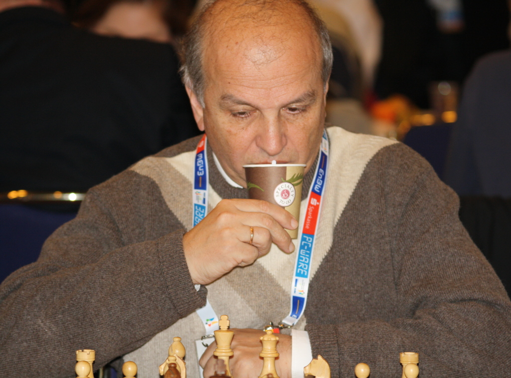 GM Alexander Beliavsky Slovenia, Chess Olympiad Dresden 2008